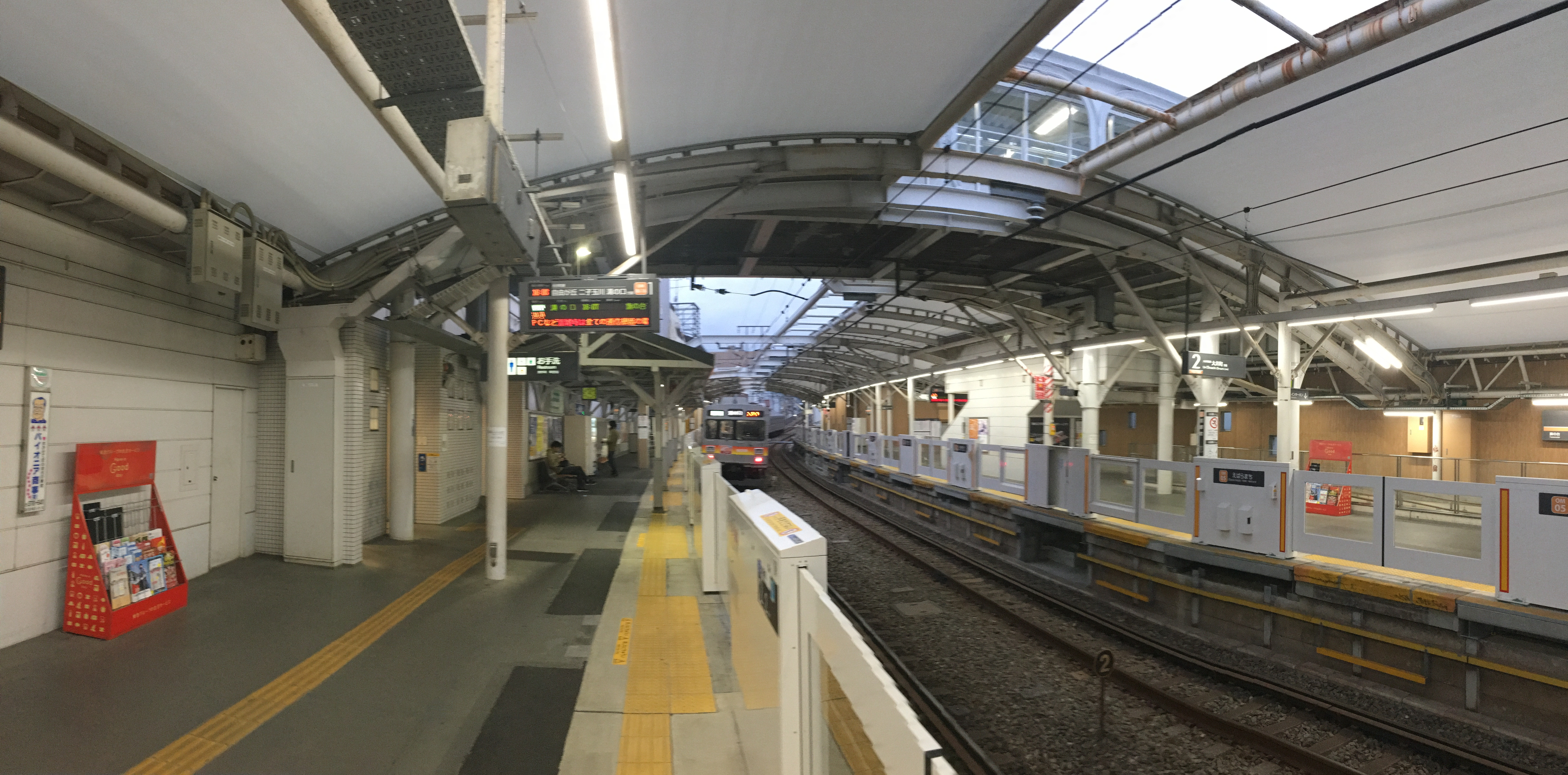 荏原町駅のホーム (Ebara-Machi Station platforms)